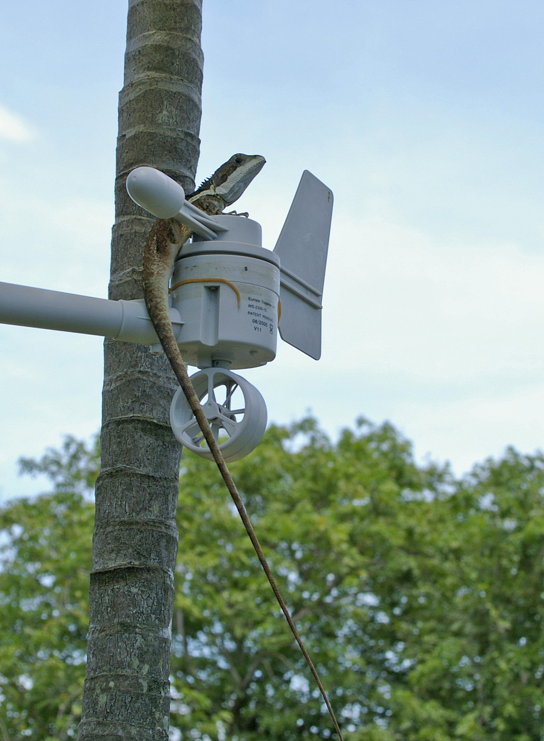 TaTa Lizard (Lophognathus temporalis) which is also known as the Northern Water Dragon sitting on a weather station Anemometer. Because this photograph concerns privacy since this was taken on a private property, only an approximate location is provided: Darwin, Northern Territory, Australia